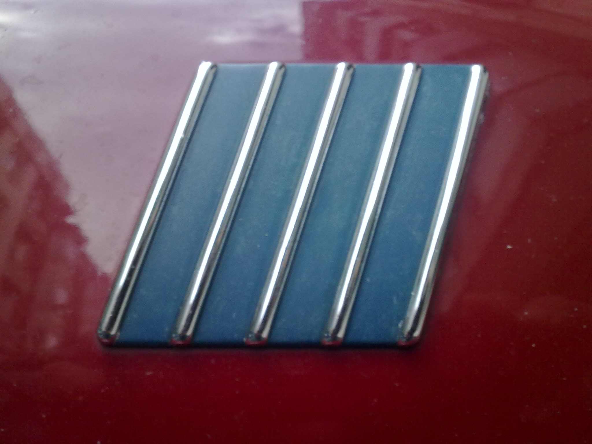 Fiat 1993 Logo